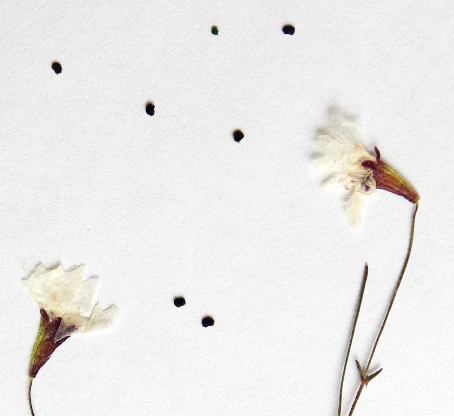 Seeds of Heliosperma monachorum